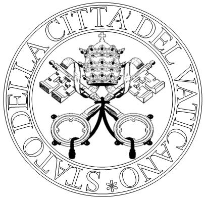 Seal of the State of Vatican City modelled after image at but entirely my own work (with public domain tiara & keys).